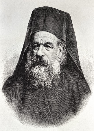 Ecumenical Patriarch Dionysius V